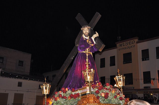 Nazareno en la Madrugada de encuentro